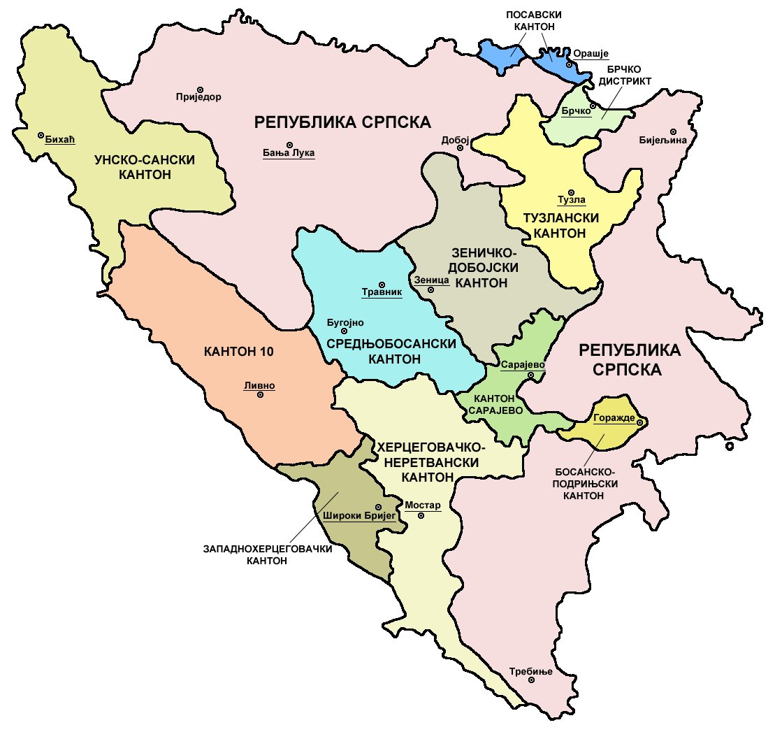 Map showing the cantons of the Federation of Bosnia and Herzegovina.